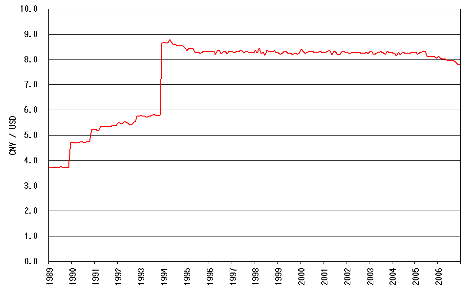 Graph showing Renminbi krone and U.S. dollar exchange rate from January, 1989 to December, 2006.